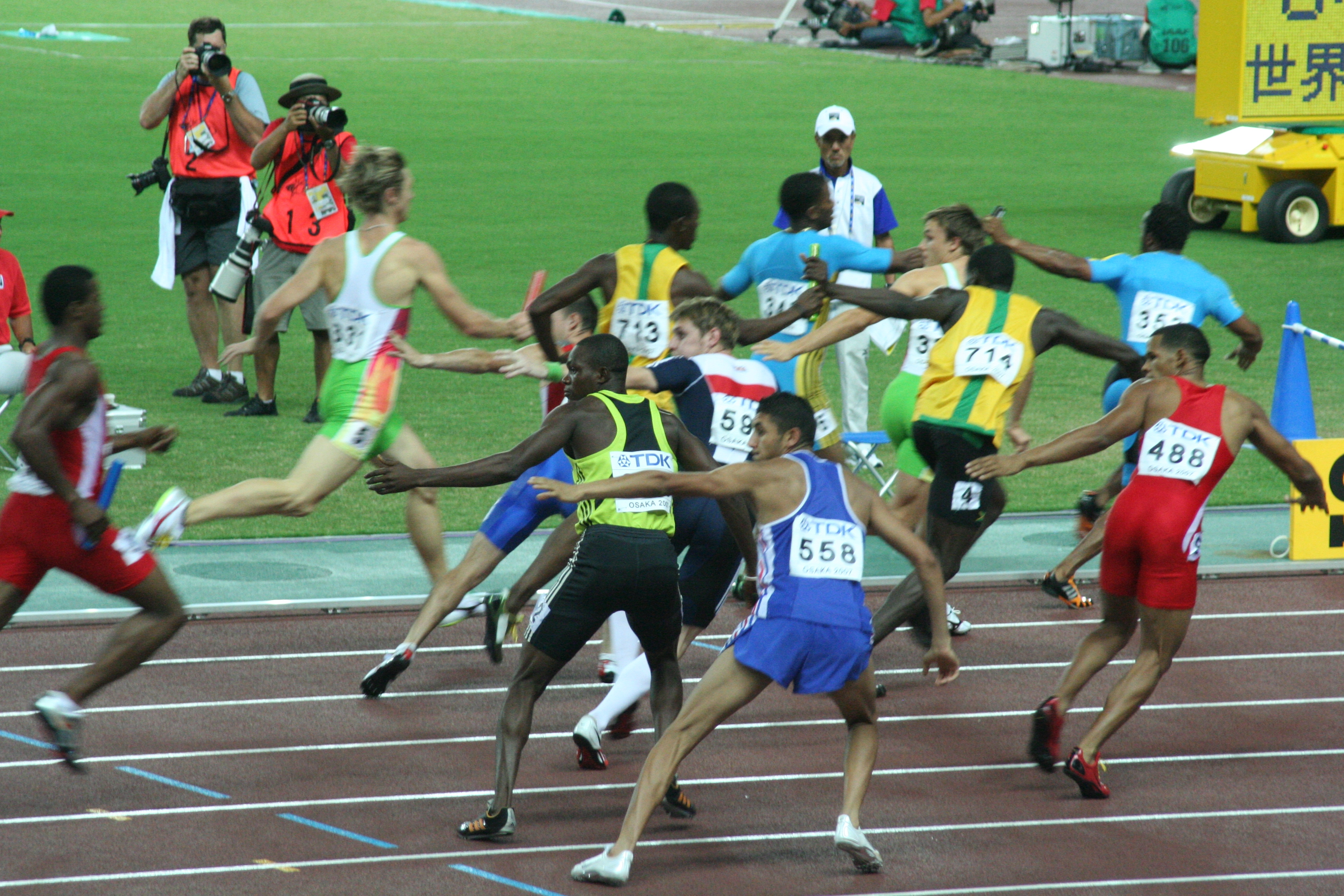 World Athletics Championships 2007 in Osaka - Exchange during a men's 4*400 metres heat: Arismendy Peguero (Dominican Republic), Dylan Grant (Australia), Victor Isaiah (Nigeria), Ricardo Chambers (Jamaica), Richard Buck (Great Britain), Fadil Bellaabouss (France), Michael Mathieu (Bahamas), Kurt Mulcahy (Australia), Leford Green (Jamaica), Yoel Tapia (Dominican Republic), Chris Brown (Bahamas)